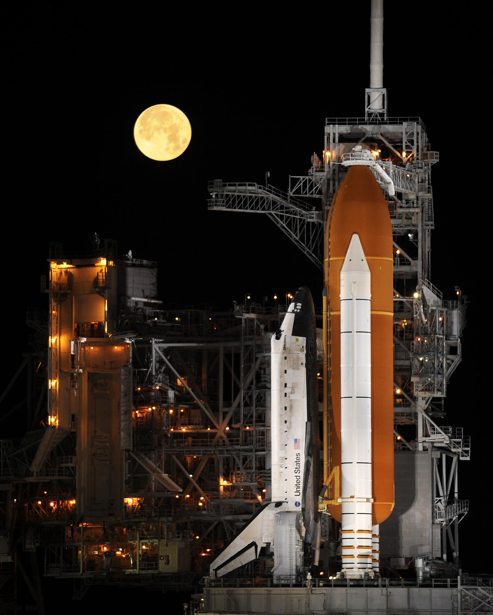 A nearly full Moon sets as the space shuttle Discovery sits atop Launch pad 39A at the Kennedy Space Center in Cape Canaveral, Florida, in the early morning hours of Wednesday, March 11, 2009.